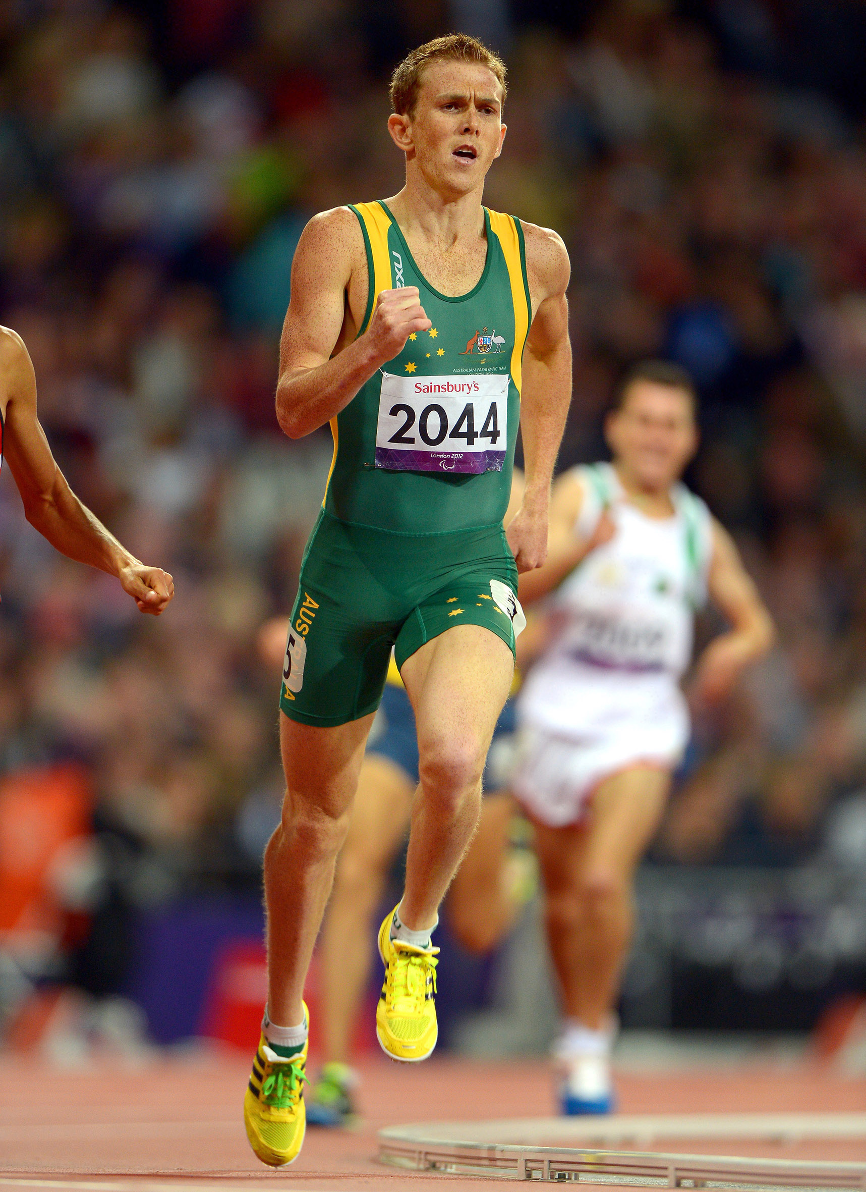 Photograph of Australian Paralympic team member Brad Scott at the 2012 Summer Paralympic Games in London